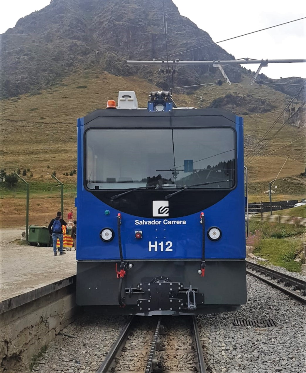 The dual-mode electro-diesel locomotive H12 of the Nuria rack-railway, of Ferrocarrils de la Generalitat de Catalunya, at the Núria station on the day of its baptism.